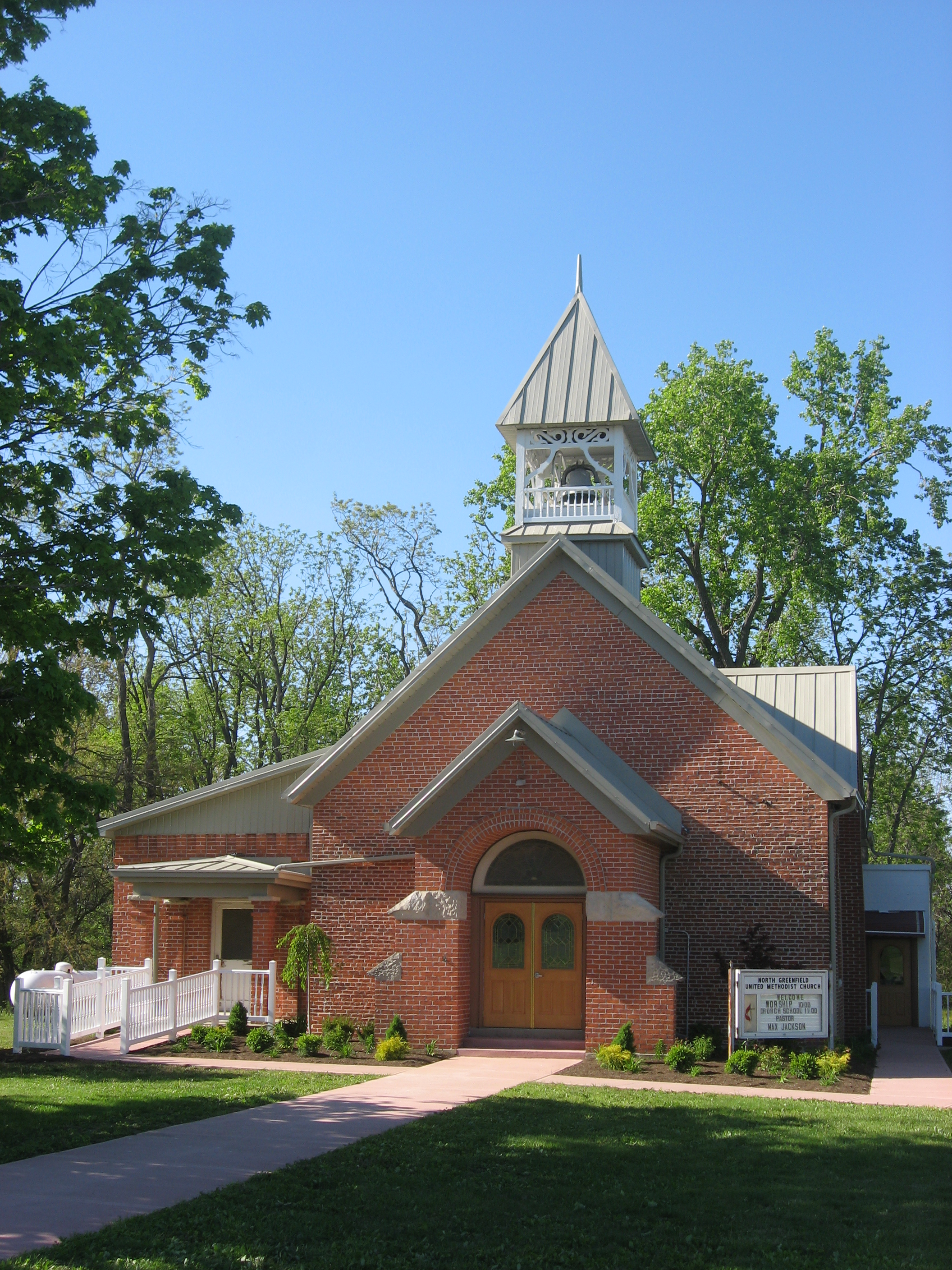 North Greenfield United Methodist Church, located at 9609 County Road 2 in North Greenfield, Ohio, United States. Church profile.